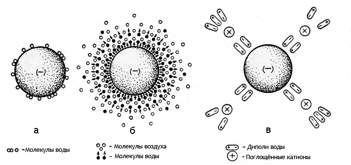 The scheme of a structure of a hygroscopic water according to various authors